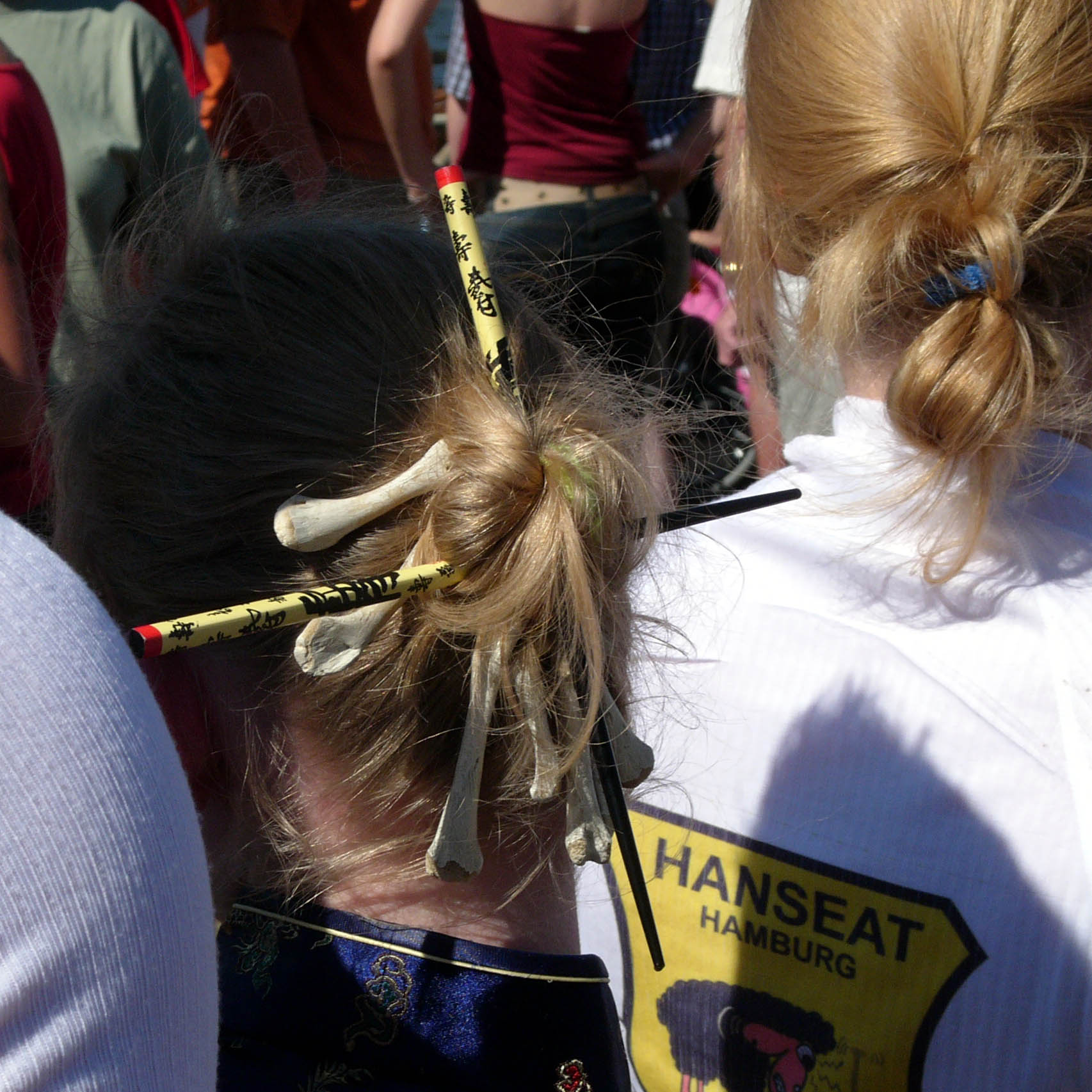 Chopsticks, used for purposes other than intended (Essstäbchen, zweckentfremdet)